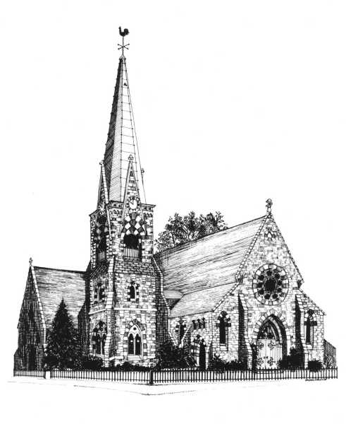 Artist's rendering of the First Reformed Church of Schenectady.